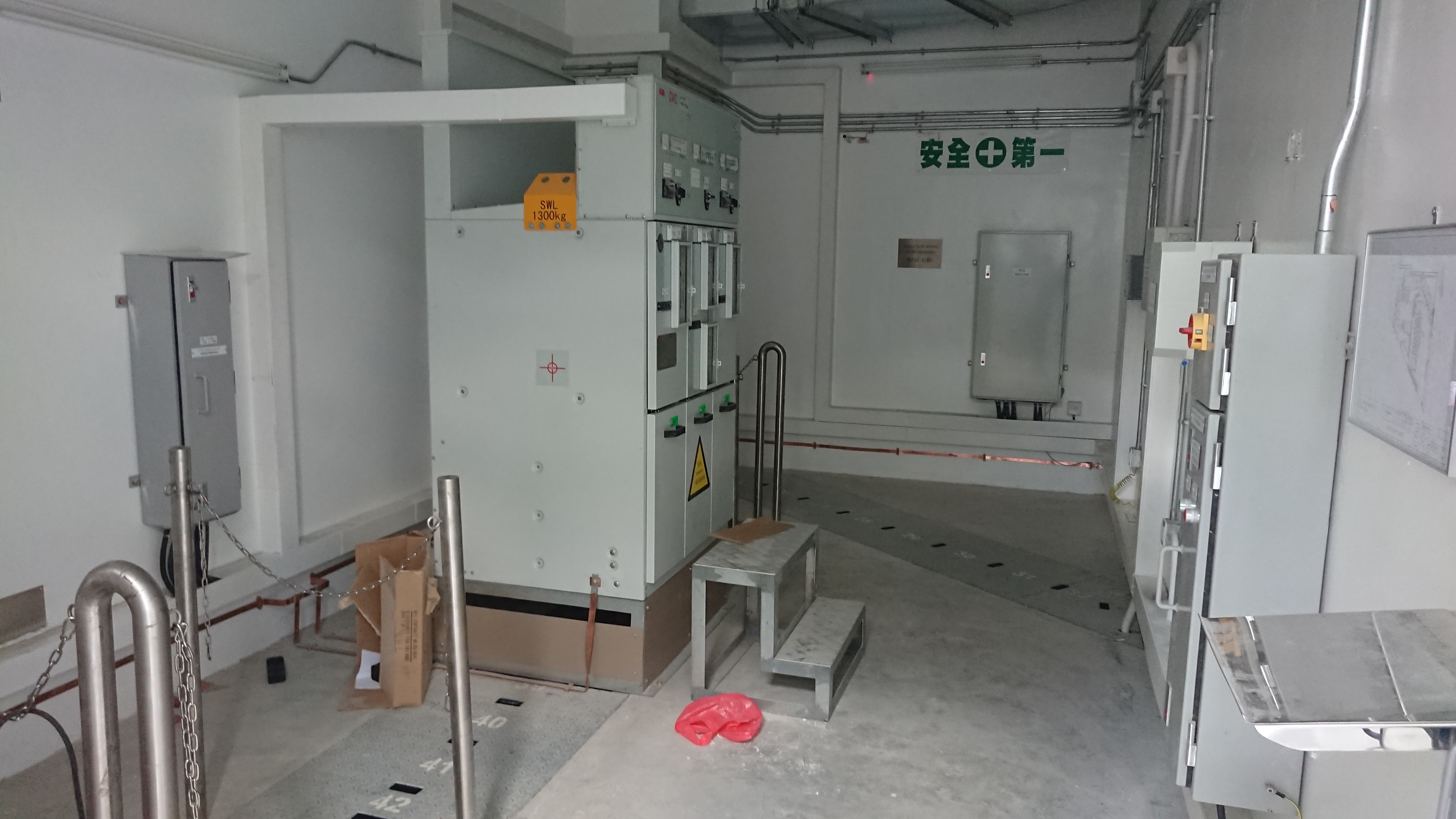 The picture shows the interior of a not yet completed substation. It can be seen that the transformer and other apparatus are elevated to prevent water ingress in case of light flooding.